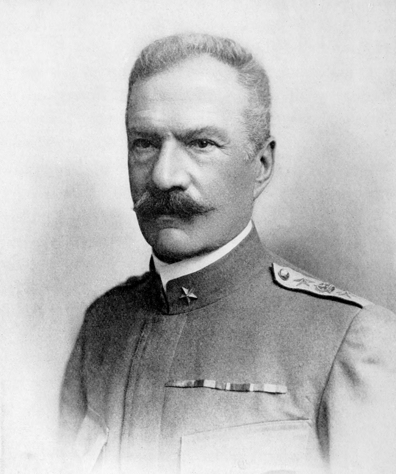 'General Caneva, Commander of the Italian Forces at Libya.'